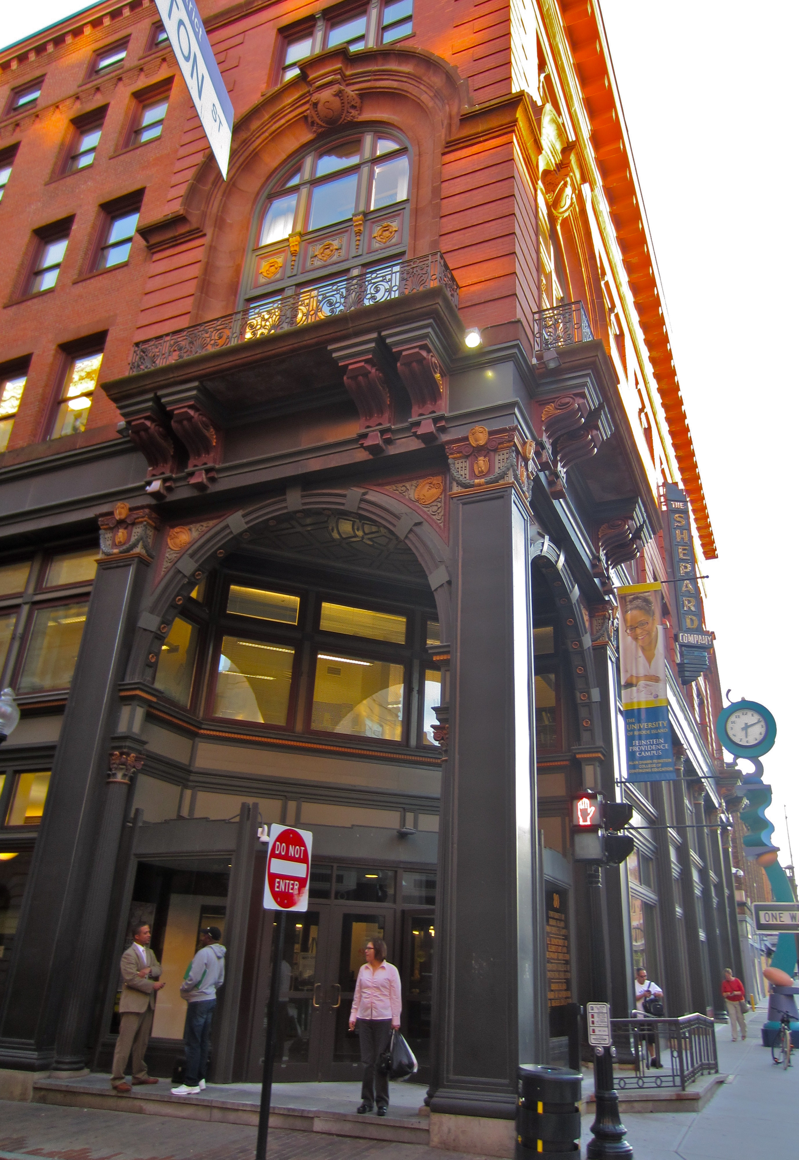 Shepard Company Building the Shepard Building, as shown from the corner Washington Street and Union Street